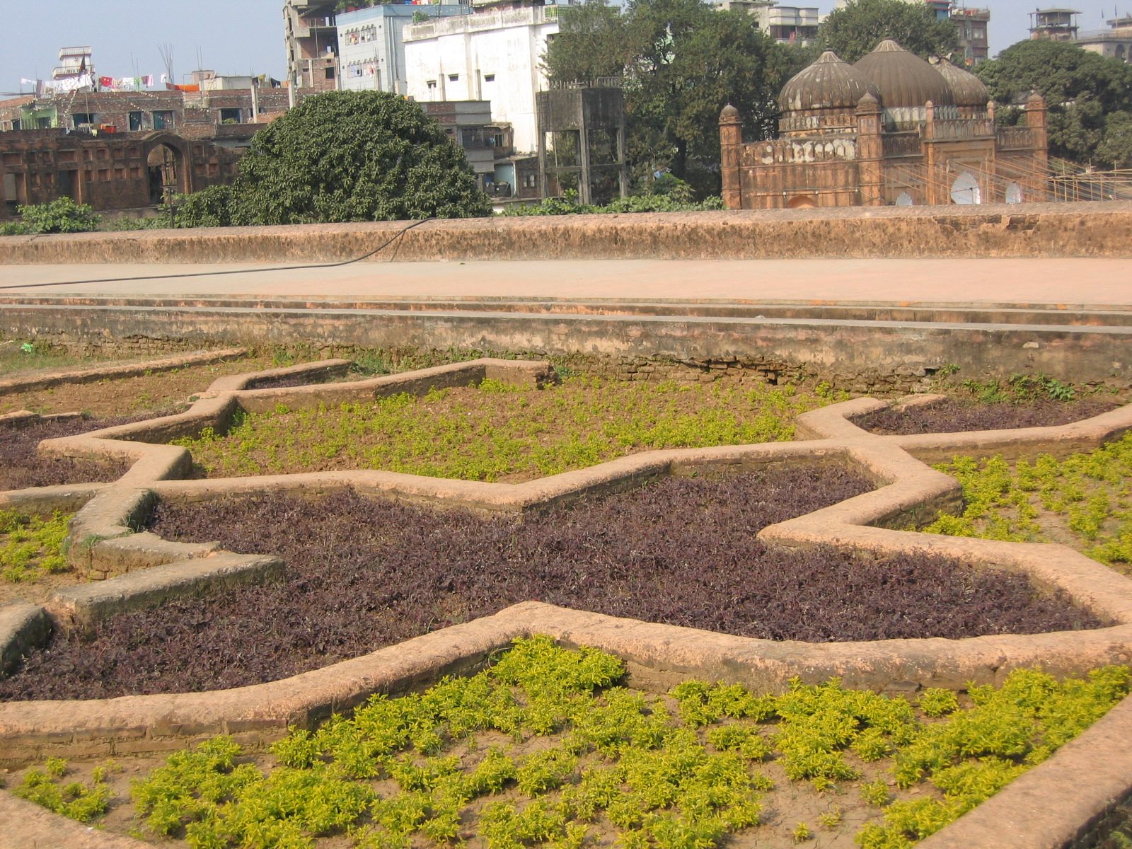 Rooftop garden in Lalbagh fort, Dhaka The layout is at least 330 years old ... built during 1680s during Shaista Khan's rule of Subah Bangla ... when Dhaka in its full glory was the capital of the entire Bengal. Photo taken in Lalbagh Fort for Bangla Wikipedia Rooftop Garden in Lalbagh Fort